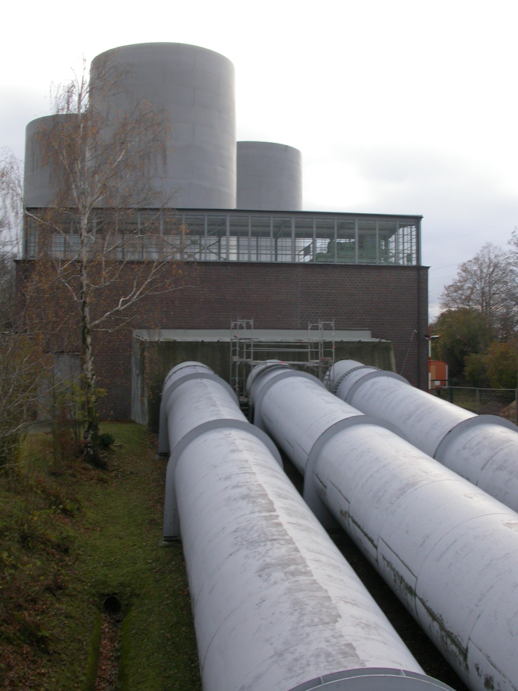 penstocks of pumped storage plant Niederwartha in Oberwartha, Dresden, Germany